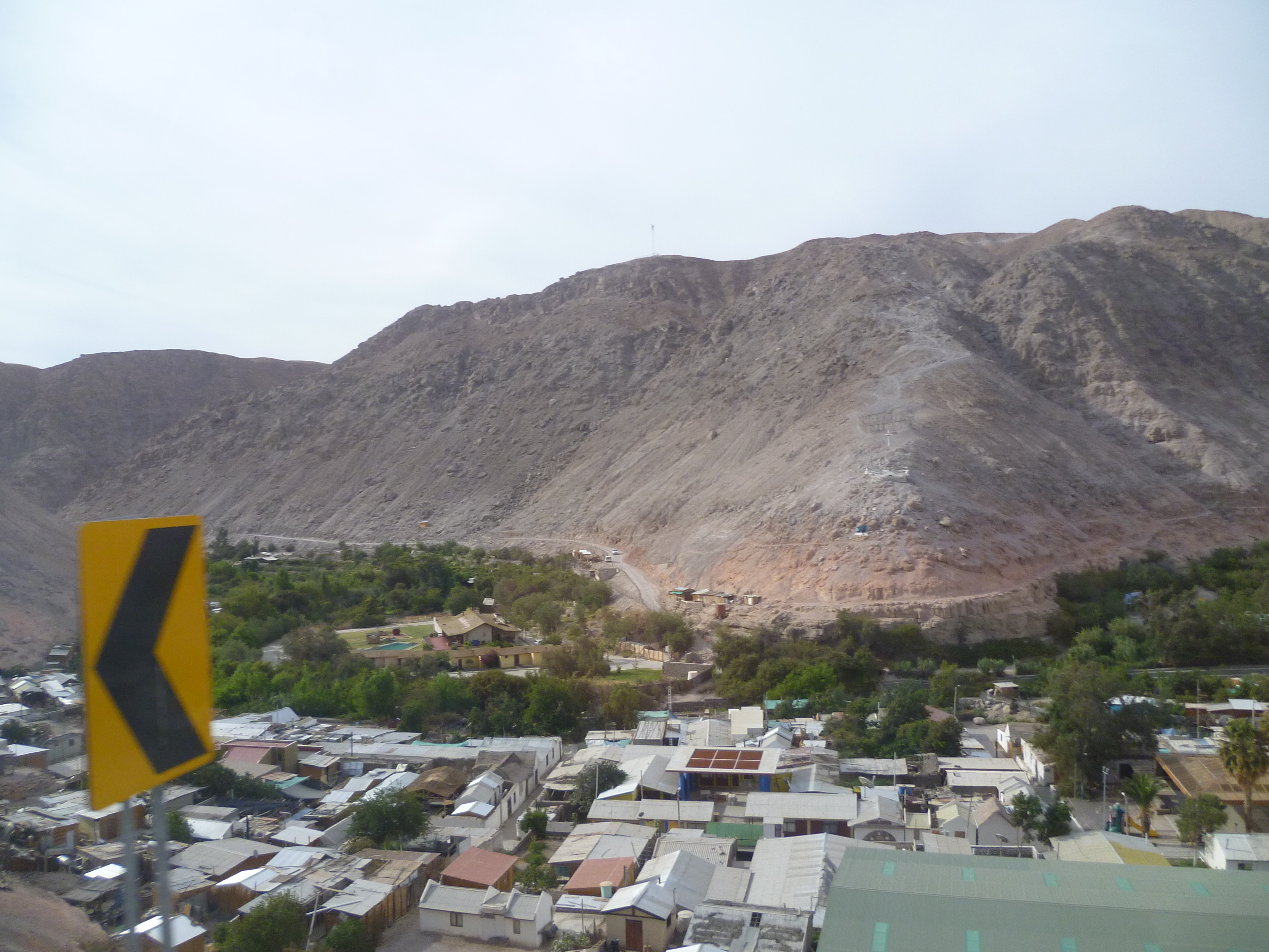 Valle de Codpa